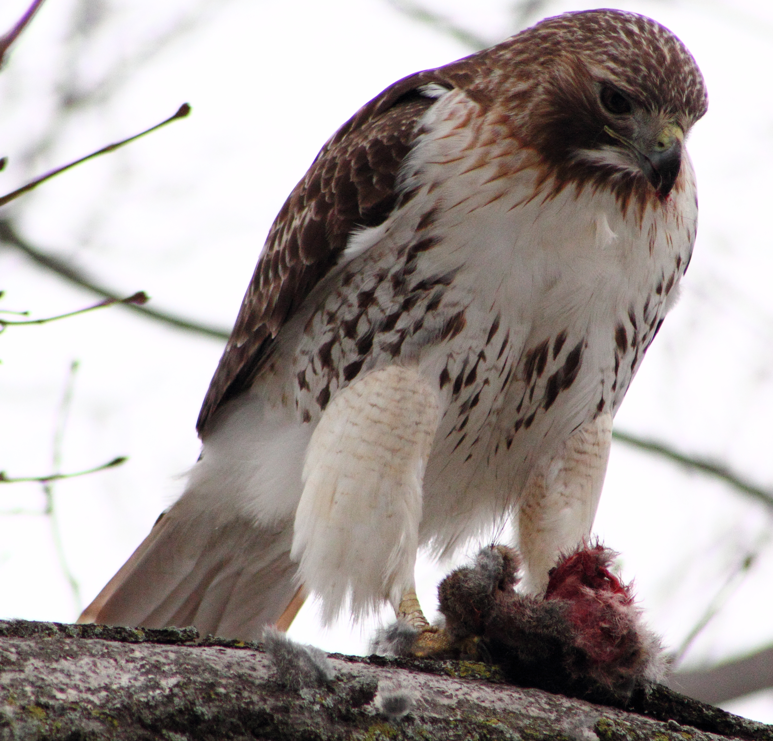 A Red-tailed Hawk eating a rabbit in a tree near Philadelphia, Pennsylvania, USA.